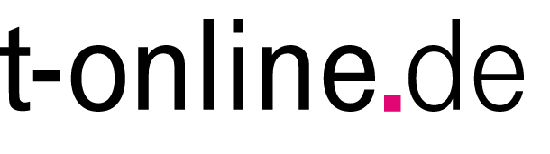 The logo of T-Online